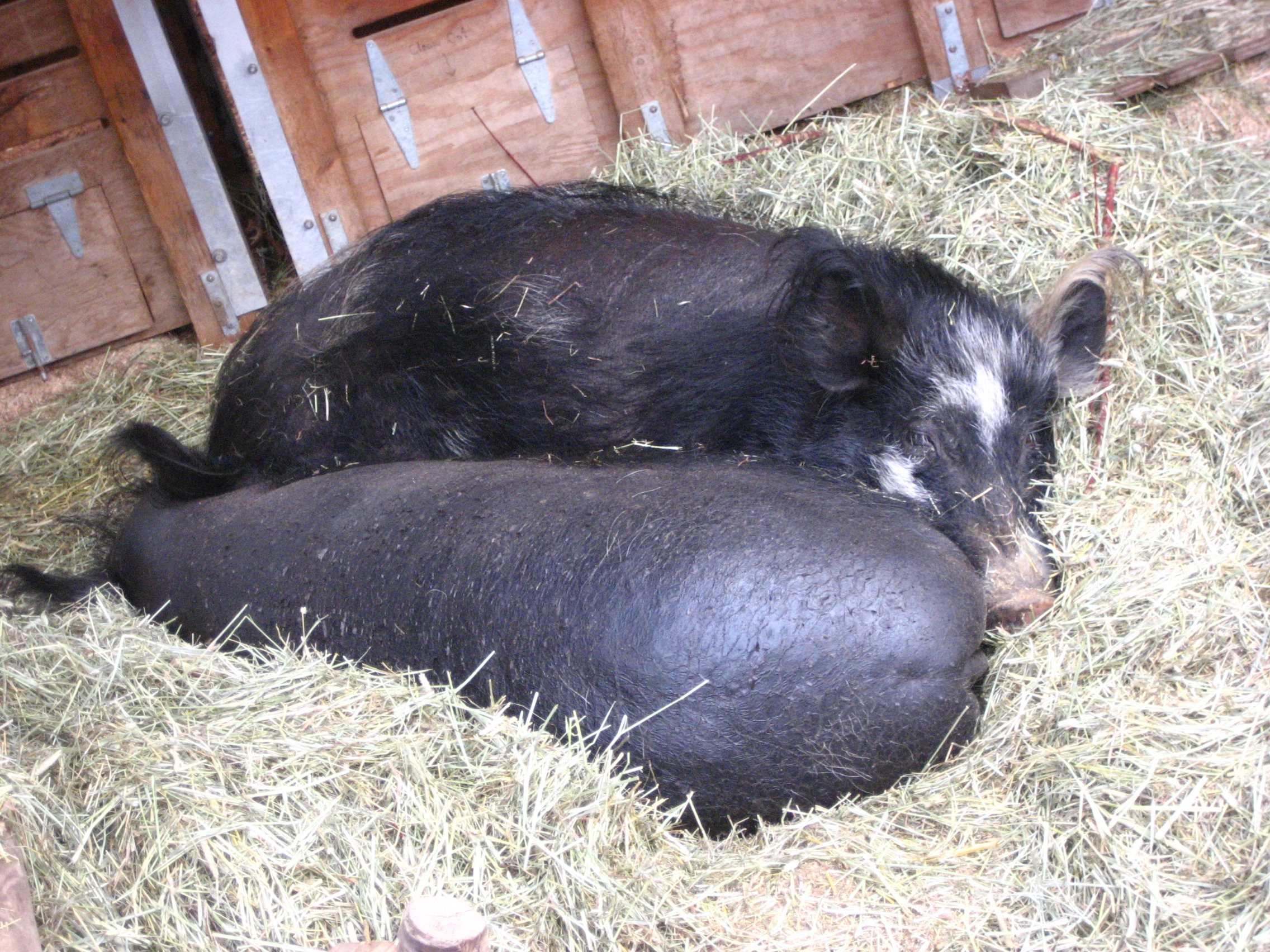 Ossabaw Island Hogs at the Seattle Woodland Park Zoo